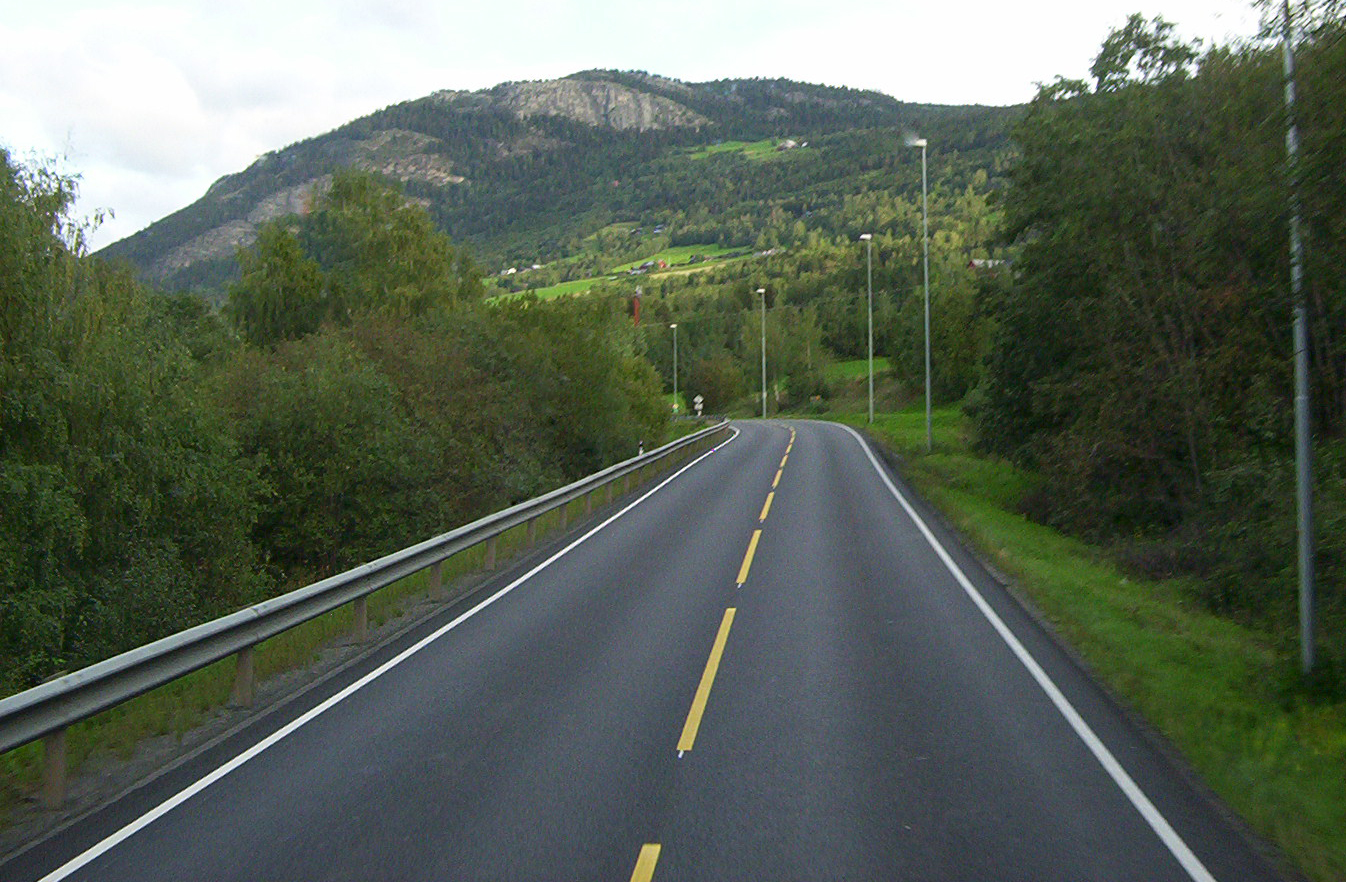 Road somewhere (maybe in northern, I'm not pretty sure at all) Norway